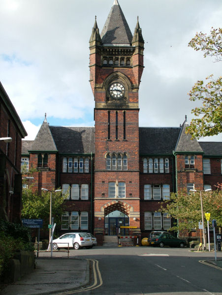 Birch Hill Clock Tower This is what's left of Birch Hill Hospital. Most of the services have been moved to the Rochdale Infirmary. The services still at Birch Hill include E.N.T. and the eye department.